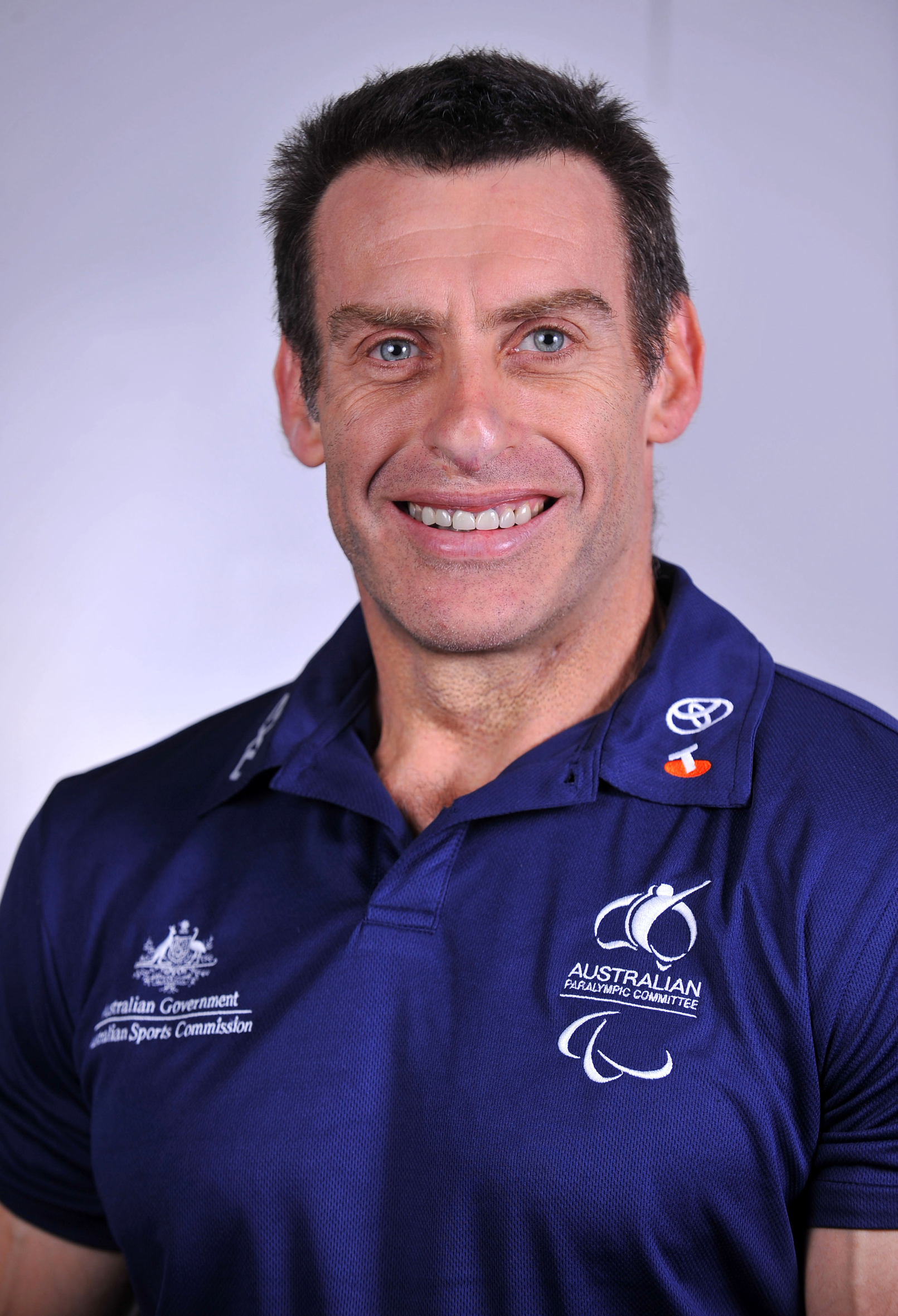 Portrait of Australian athlete Richard Nicholson, 2012 Australian Paralympic (shadow) Team athlete